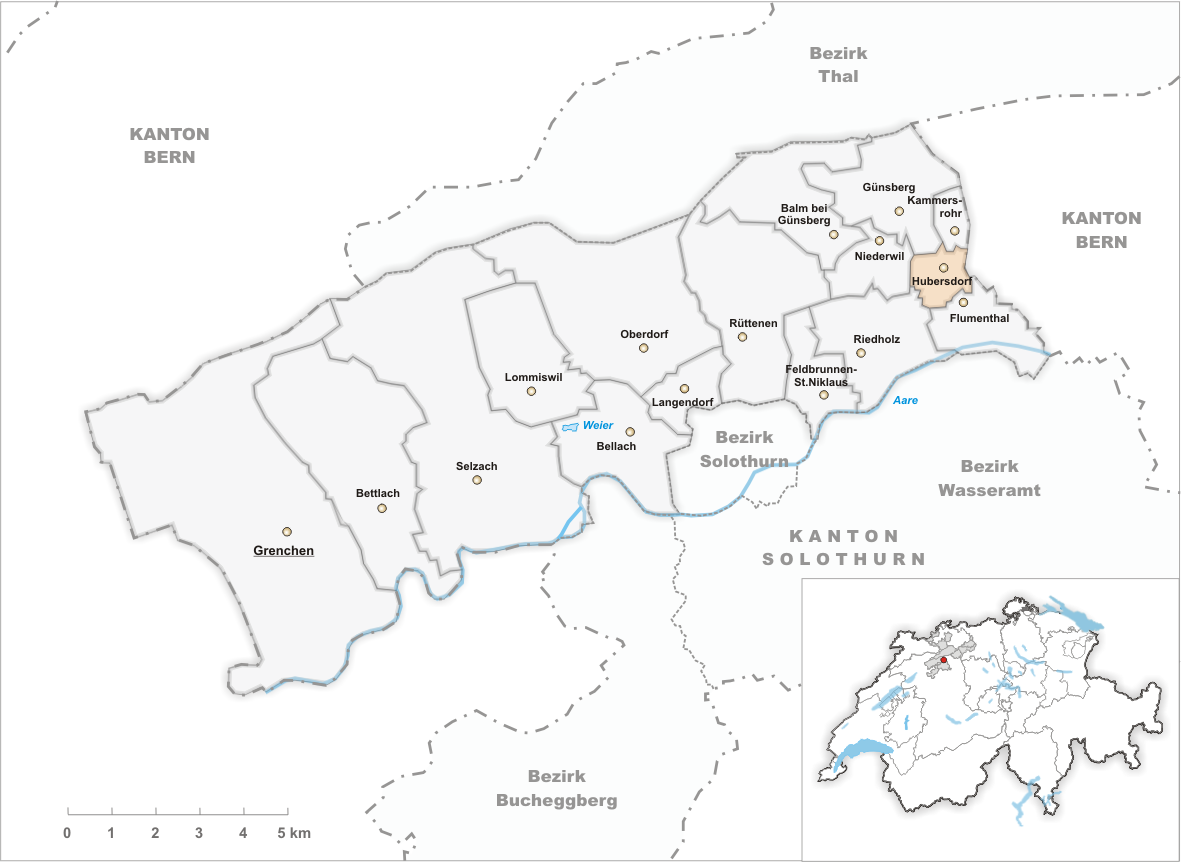 Municipality Hubersdorf